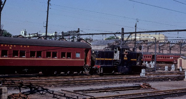 Sydney Yard shunter 7920